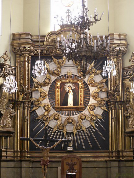 Virgen de la Paloma altarpiece. Interior of La Paloma church in Madrid (Spain).